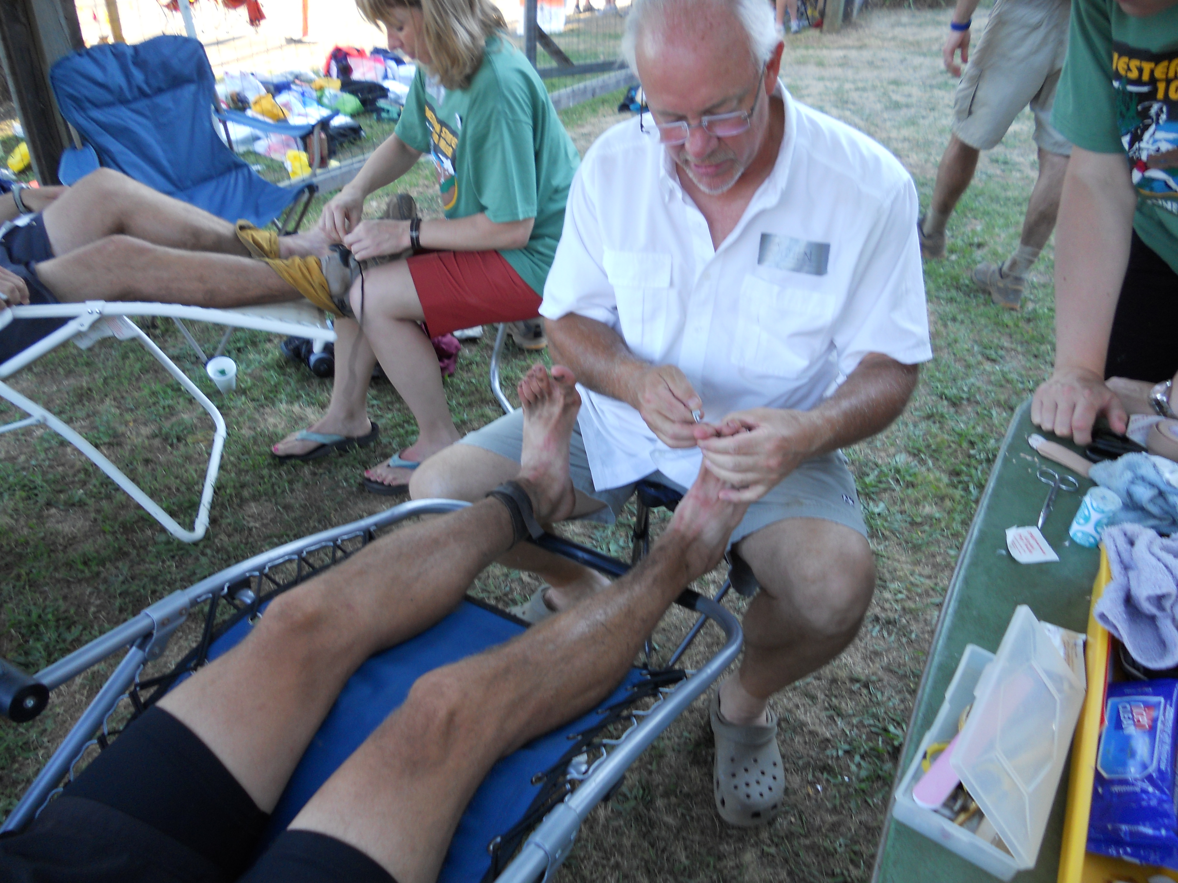 Western States Endurance Run 2010